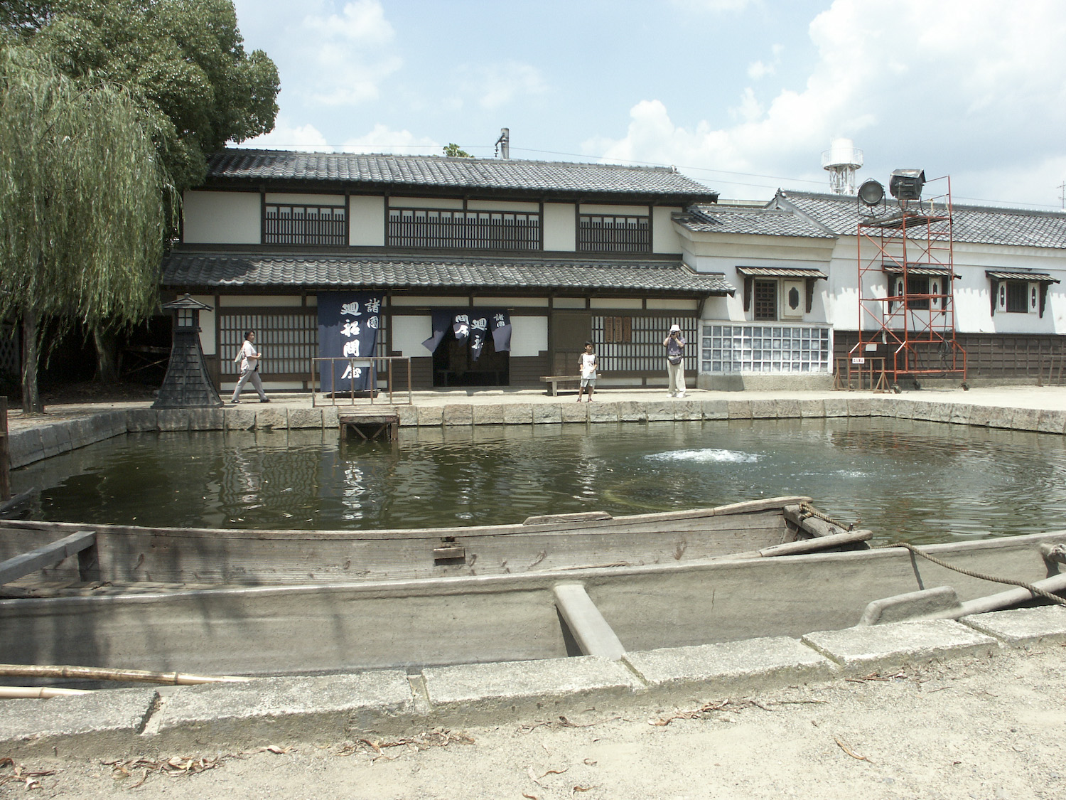 Toei Uzumasa Studios, Kyoto, Japan I contribute my rights in the file to the public domain. People and organizations retain rights to images in the file. Building viewed across water